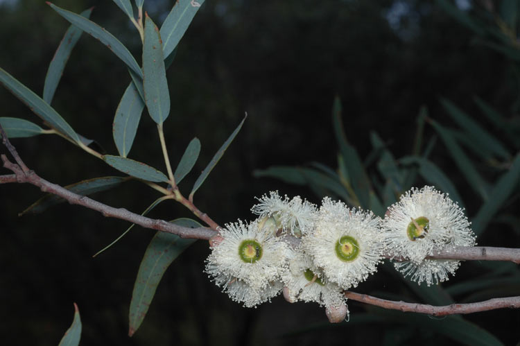 Flowers of Eucalyptus deuaensis in the Australian National Botanic Gardens